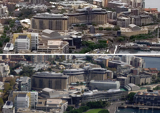 Comparison of The Star Sydney before and after redevelopment. Major changes include the expansion of the harbour-side entrance and the construction of a new hotel (seen on the left).